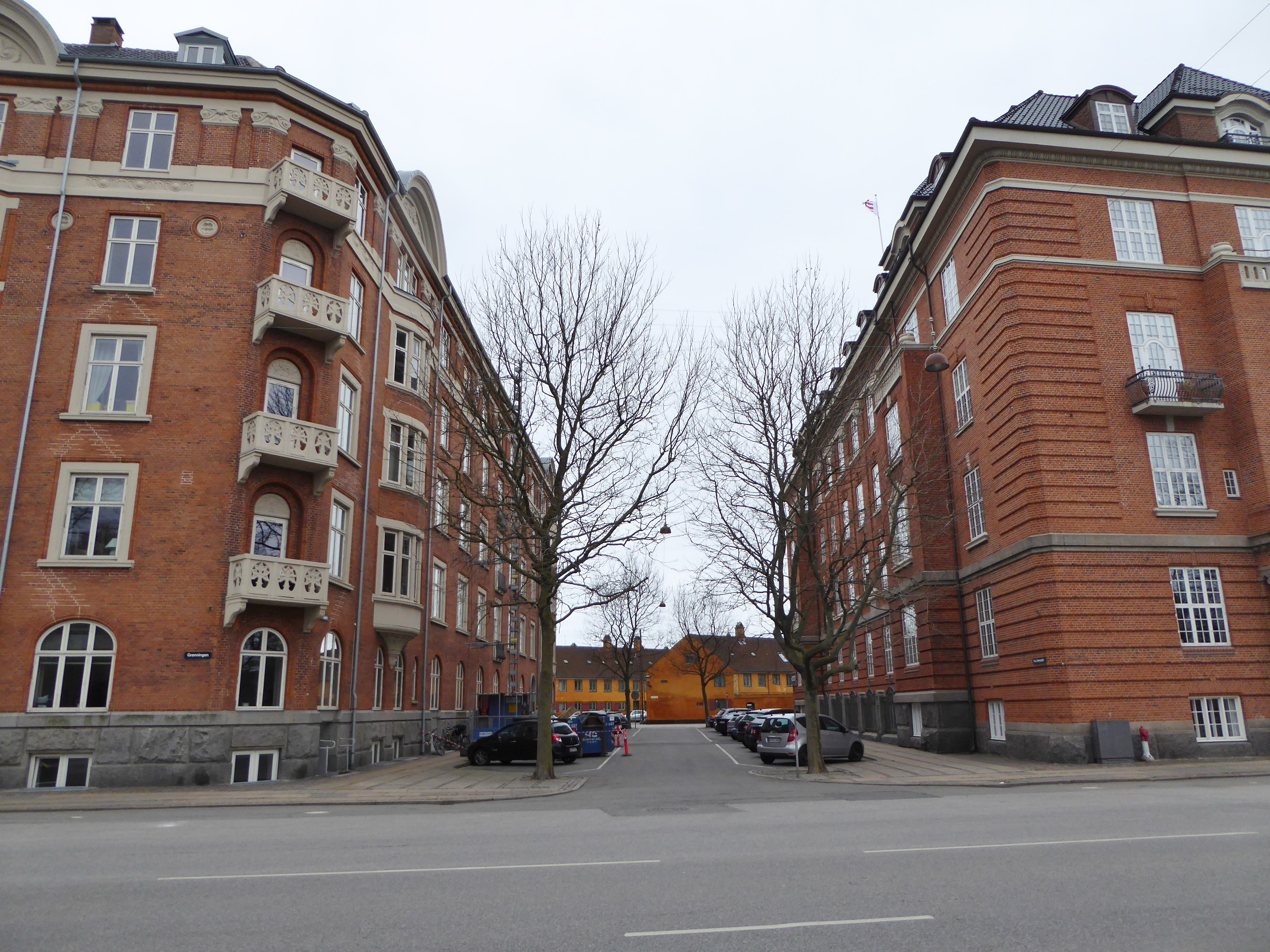 The street Poul Ankers Gade at Grønningen in Indre By in Copenhagen.